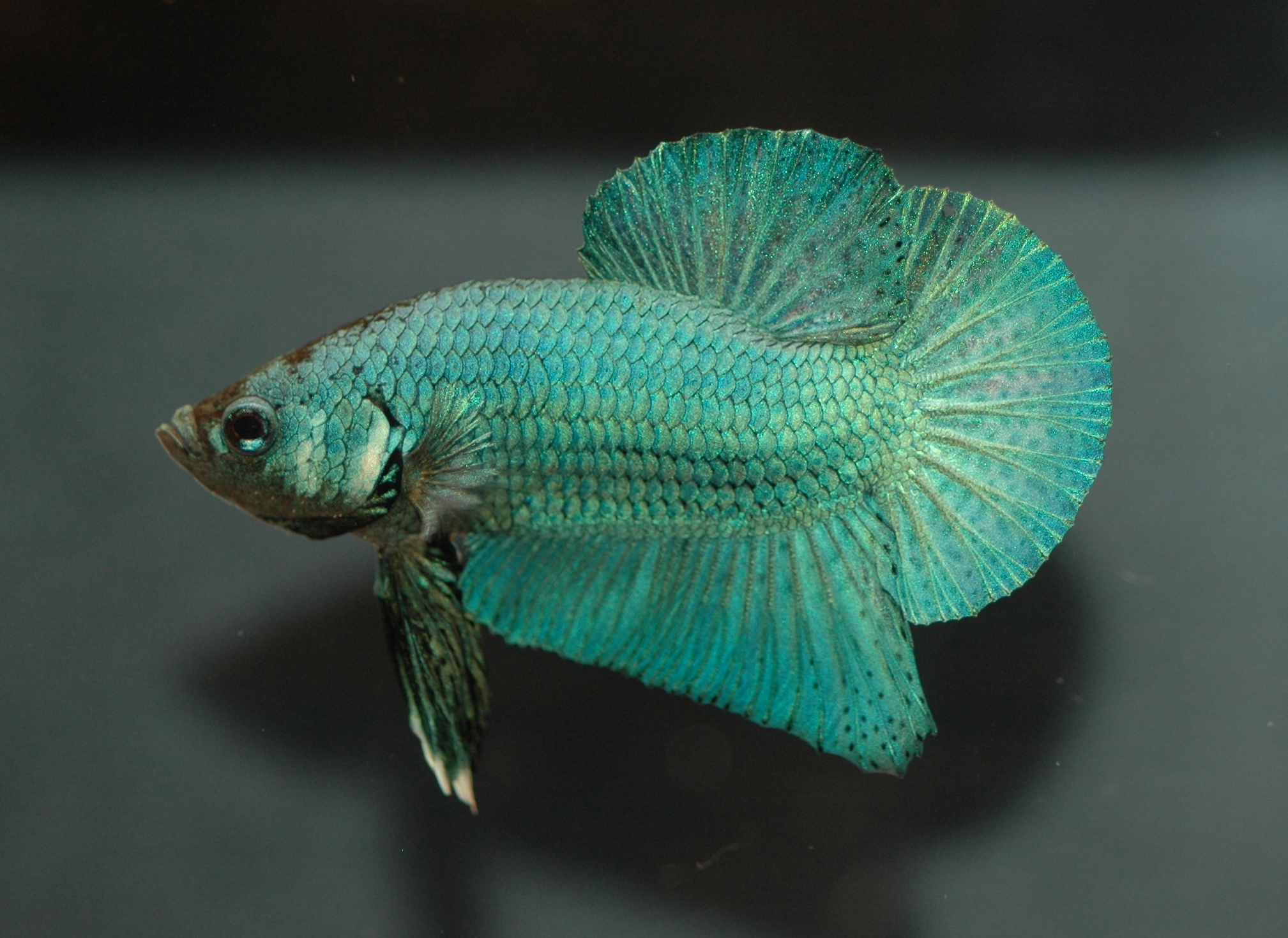 Siamese fighting fish Betta splendens, male, in an aquarium. Halfmoon plakat.